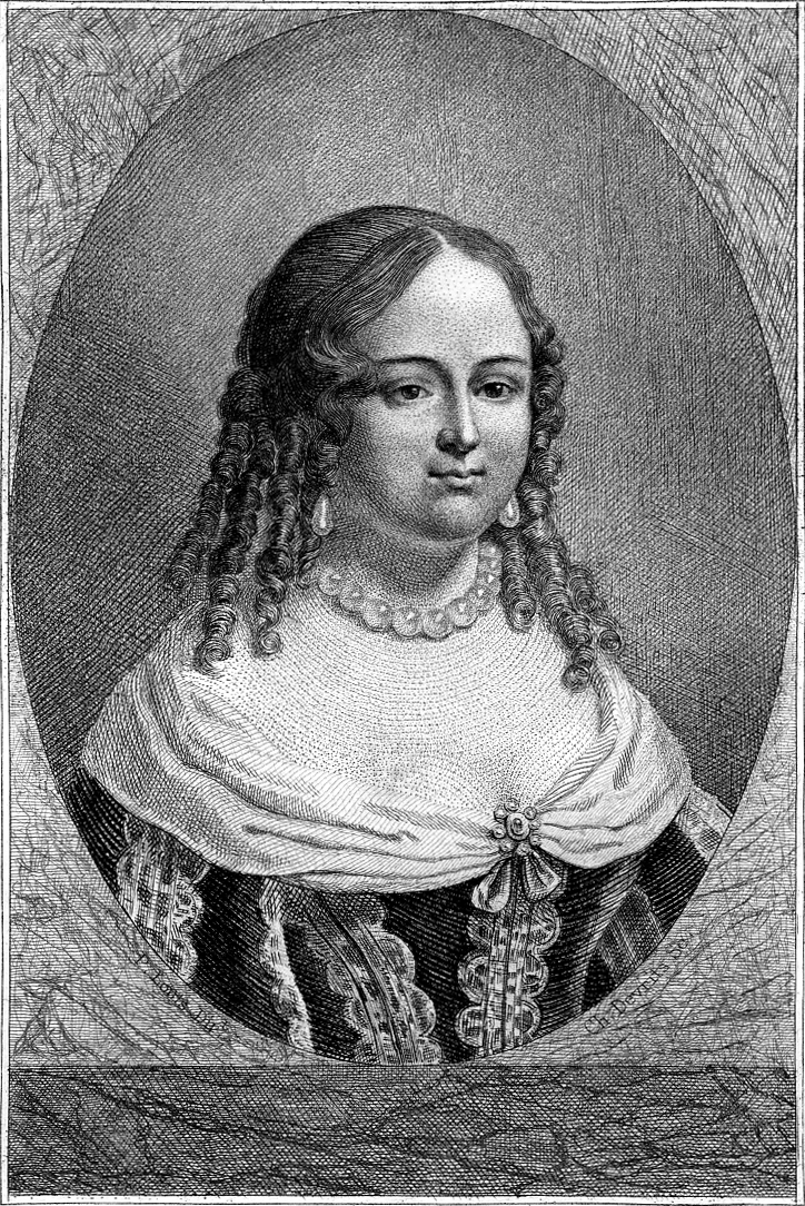 Marie-Catherine de Villedieu (1640-1683) French novelist and dramatist.